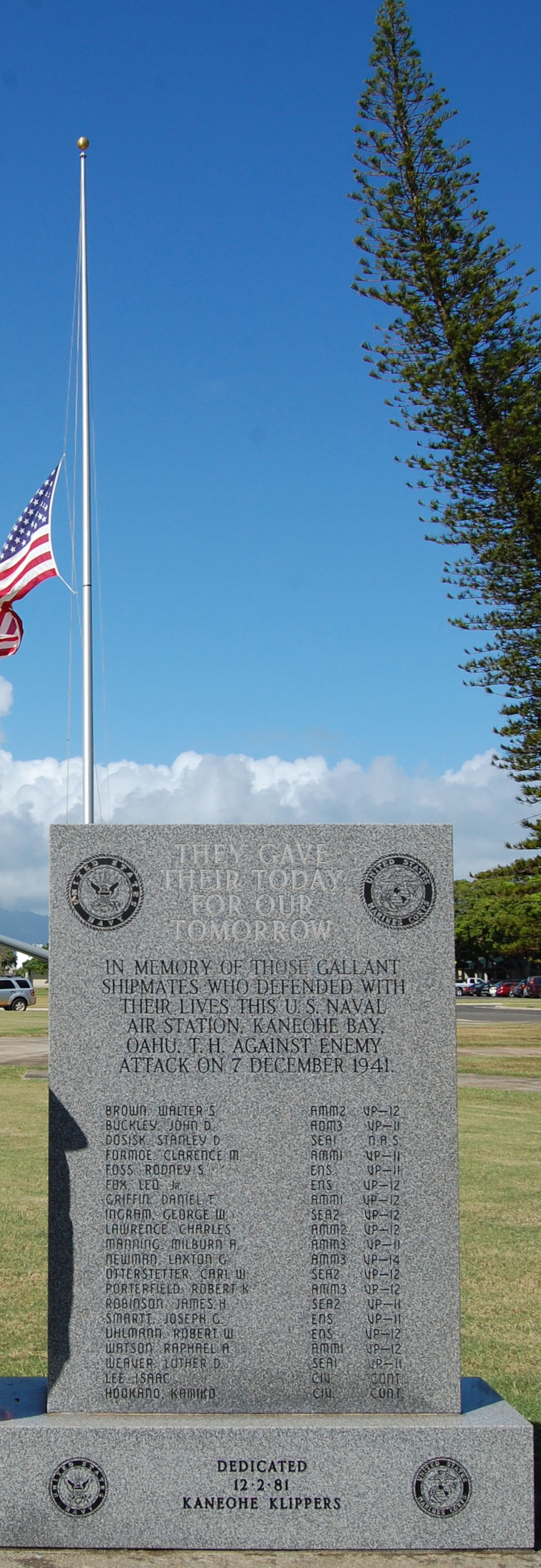 Kaneohe Clippers Memorial